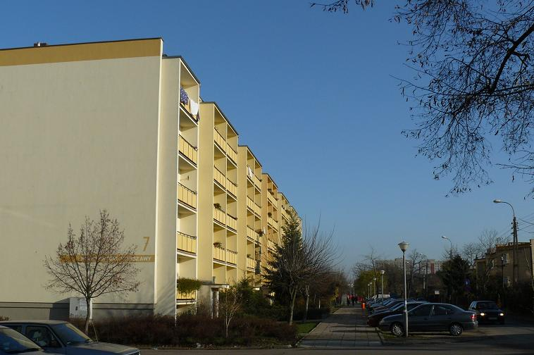 Powstancow Warszawy District in Poznan.